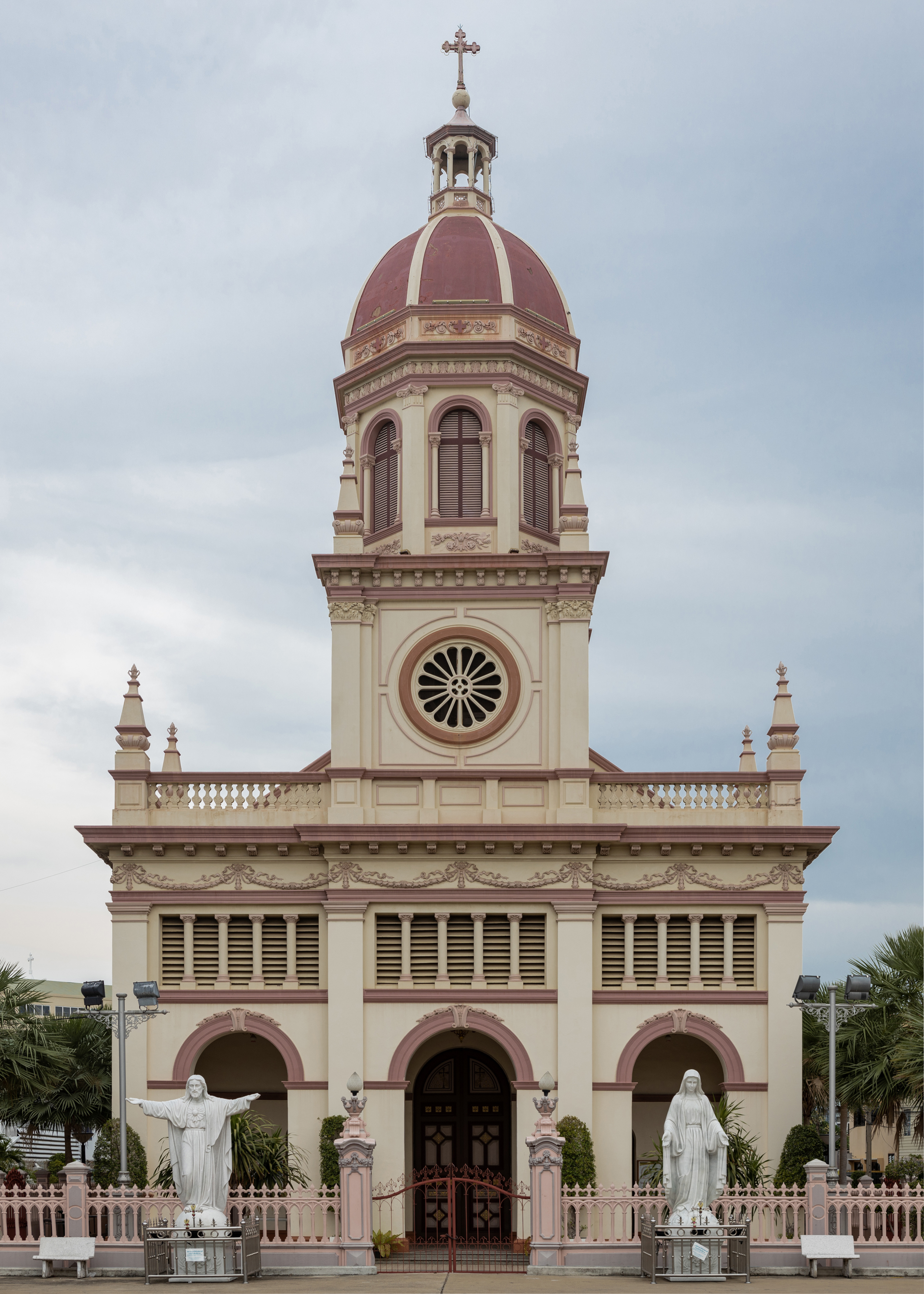 Santacruise Church, Bangkok.